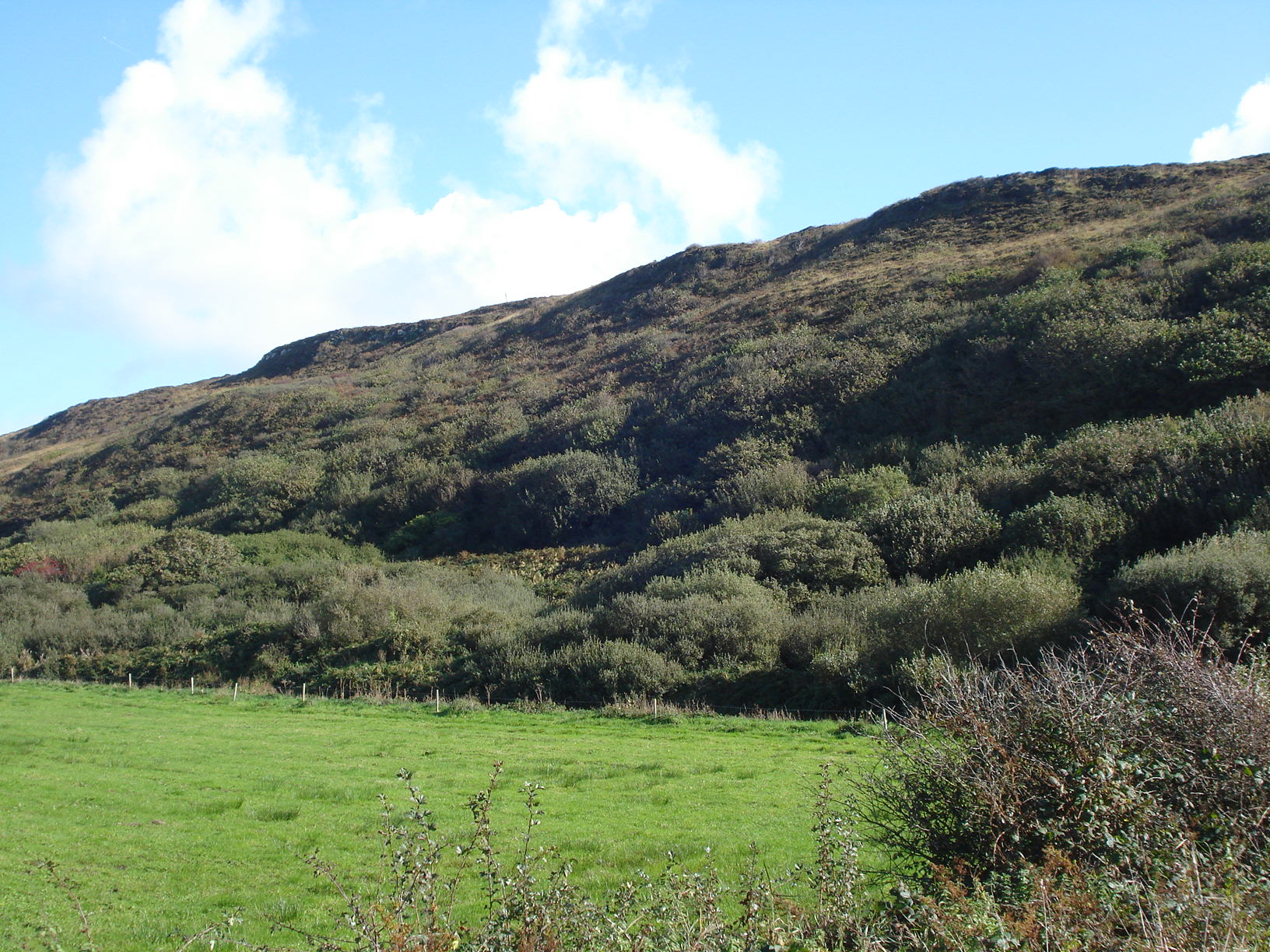 Black Hill looking north